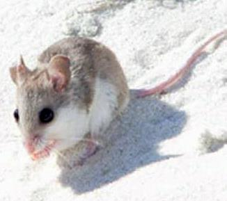 Alabama Beach Mouse (Peromyscus polionotus ammobates), a federally endangered species whose habitat includes Mobile Point and Ono Island in Alabama, United States.